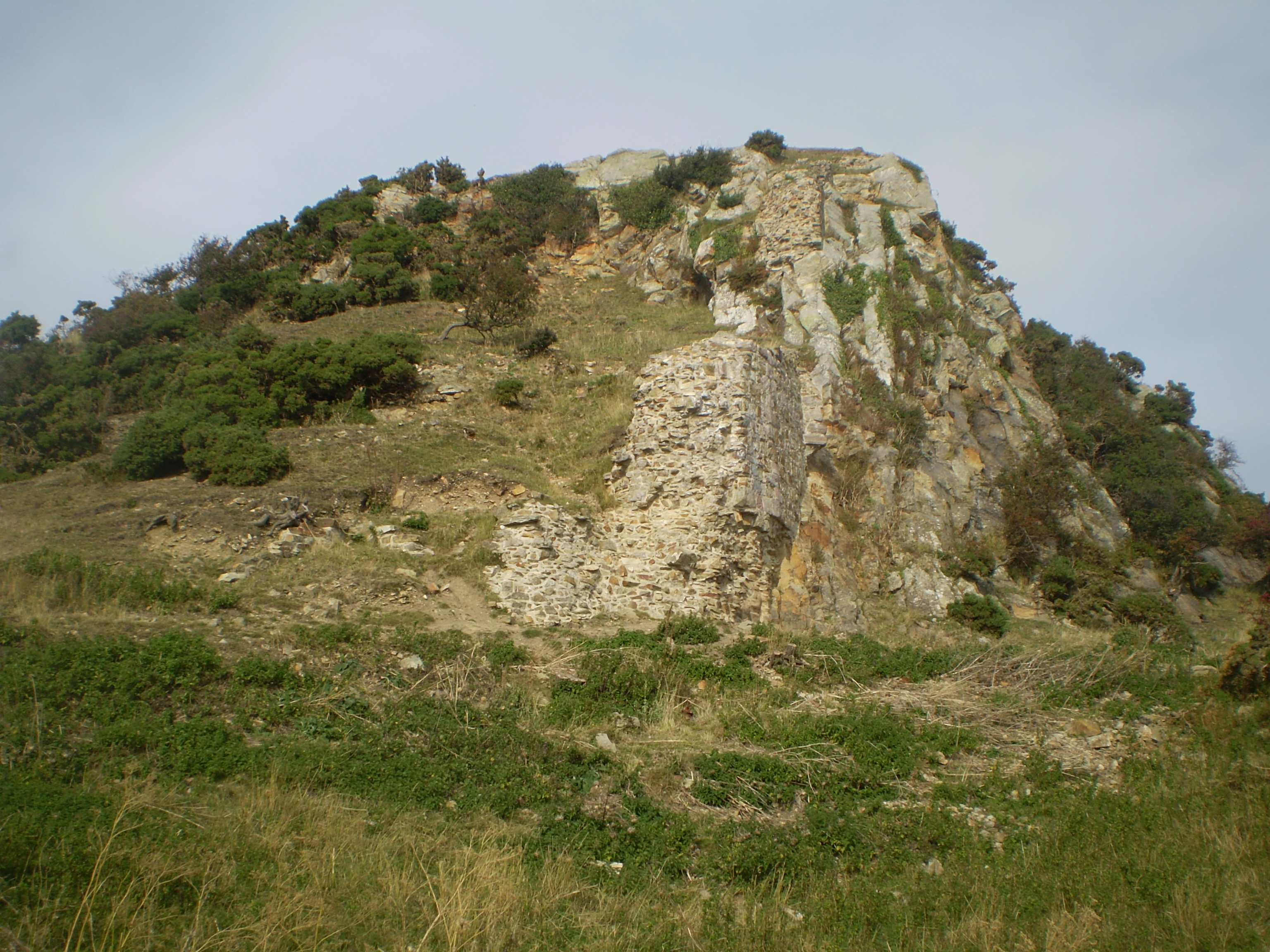 degannwy castle